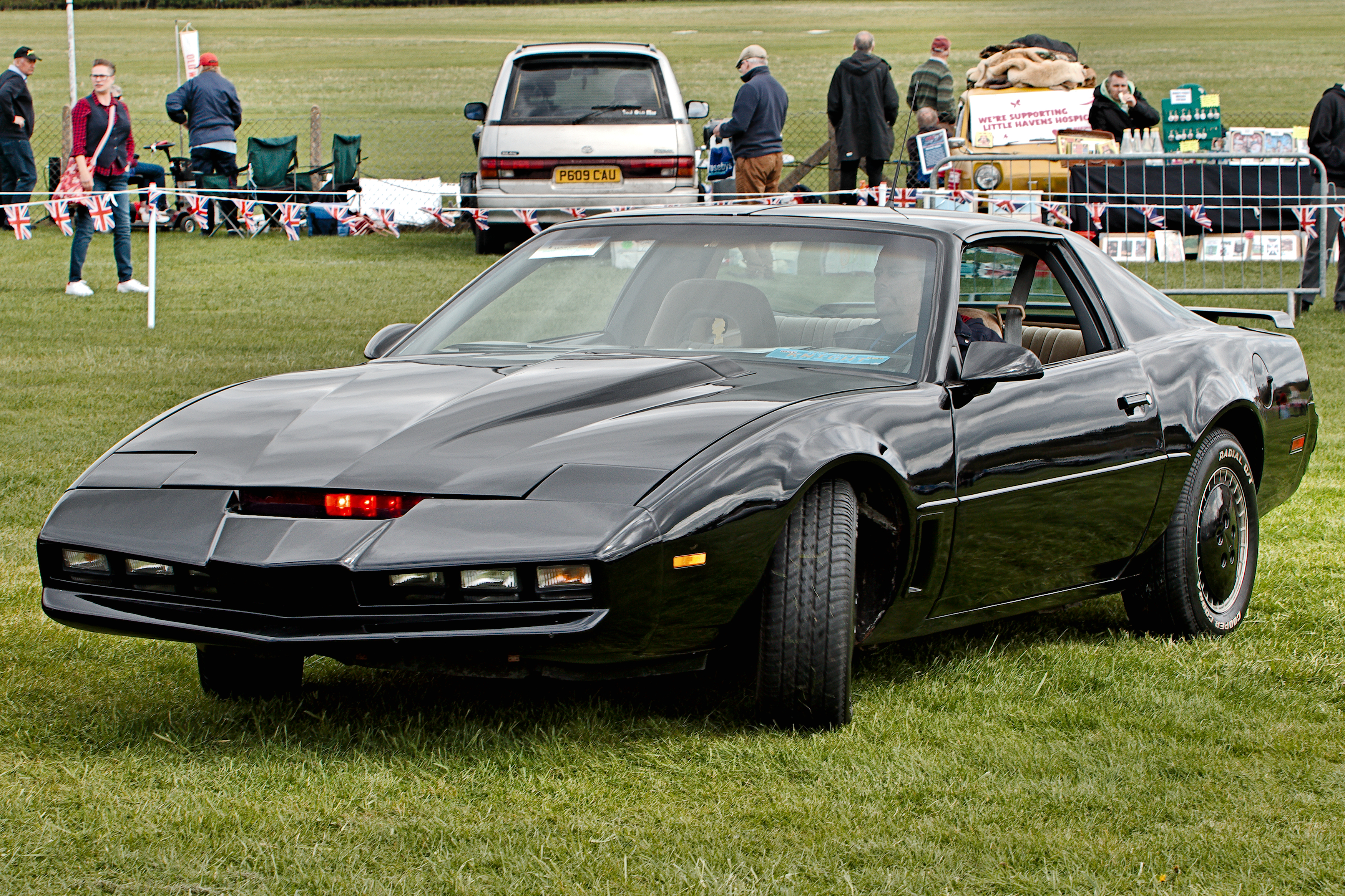 KITT - Shuttleworth Classic Car Show 2017